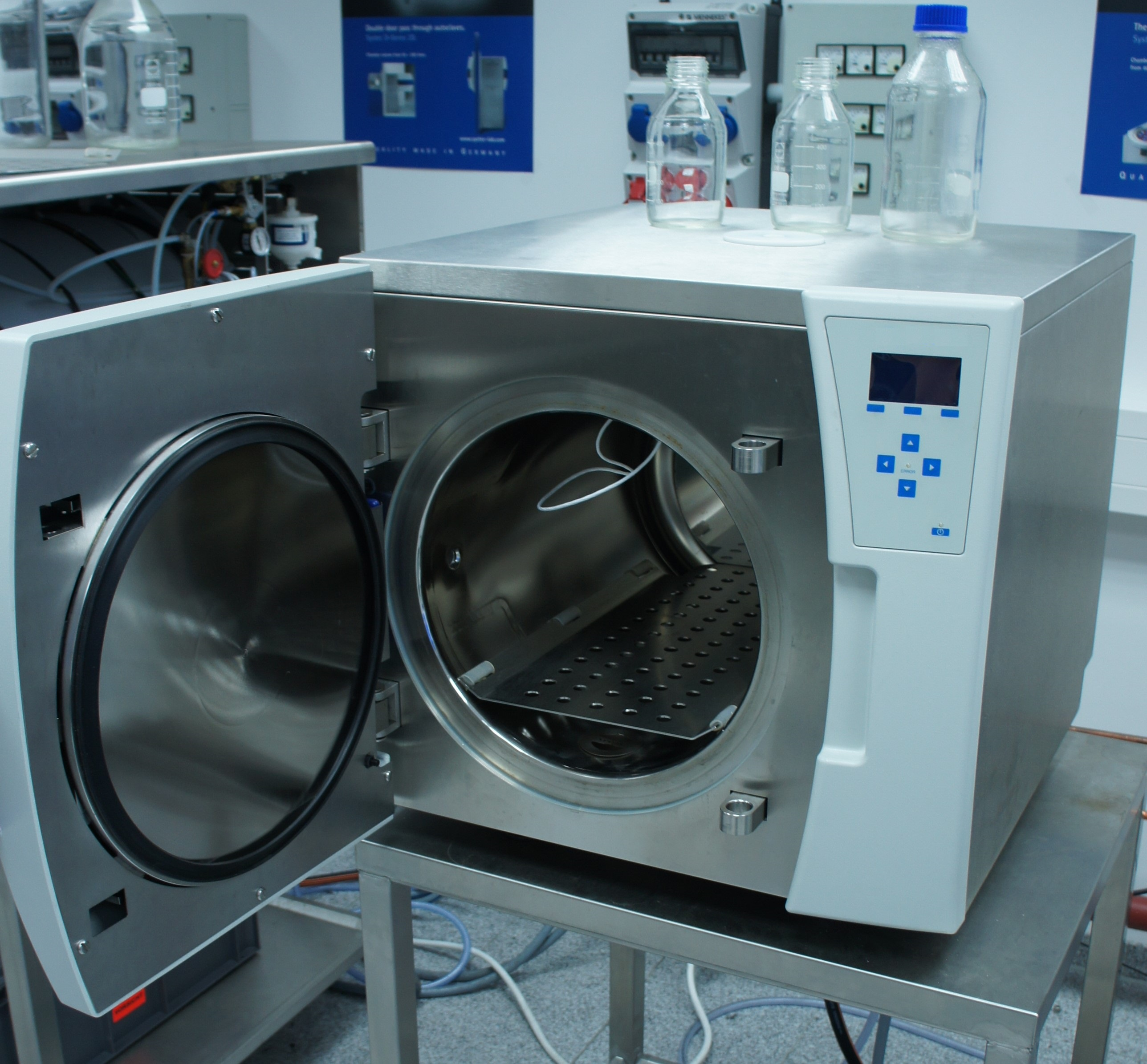 Autoclave, Laboratory autoclave